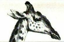 Giraffe given to Charles X of France by Muhammad Ali of Egypt, detail of planche 22